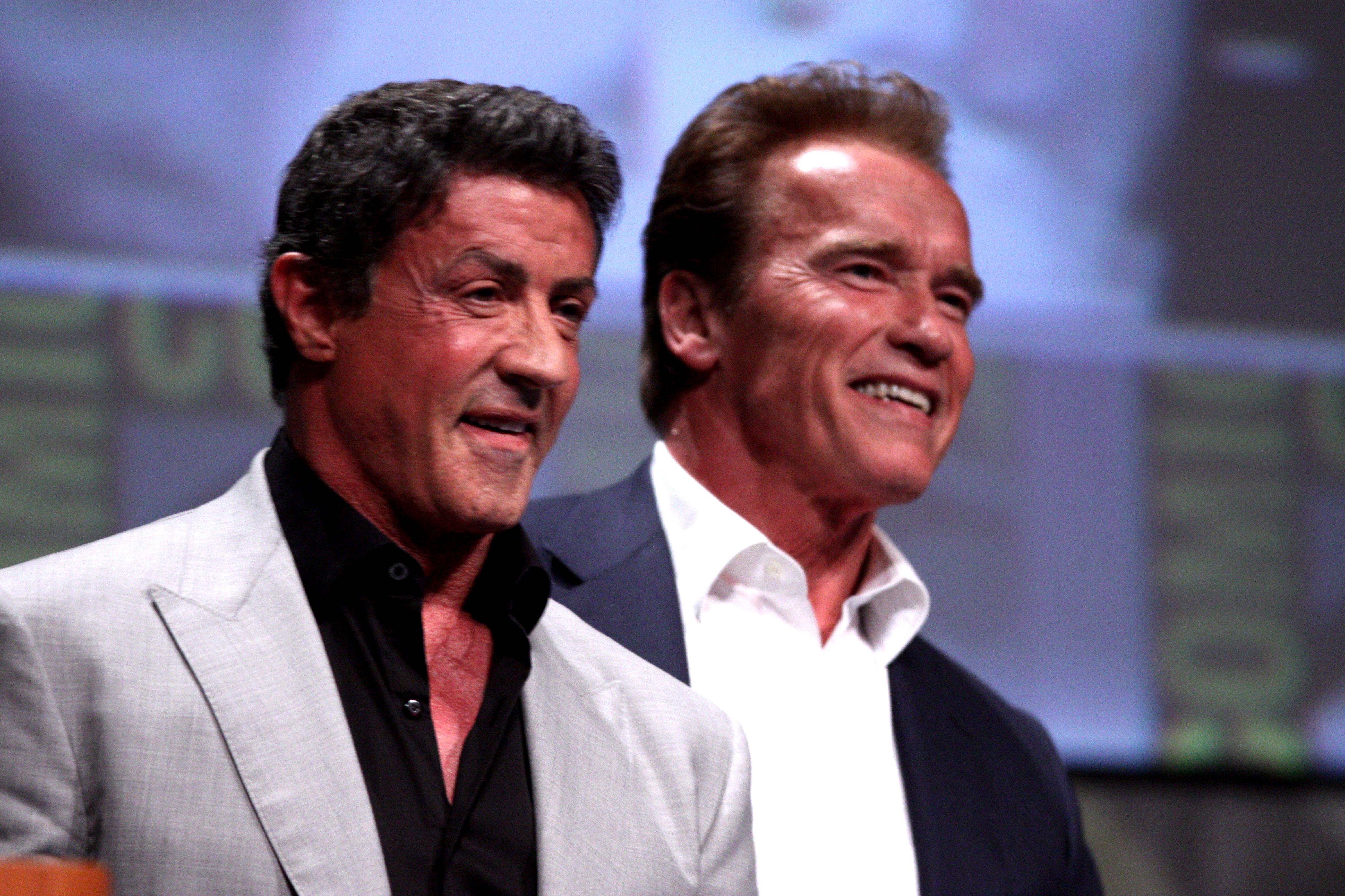 Sylvester Sly Stallone & Arnold Schwarzenegger speaking at the 2012 San Diego Comic-Con International in San Diego, California.